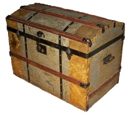 A trunk used by immigrants from Sweden to carry their possessions.